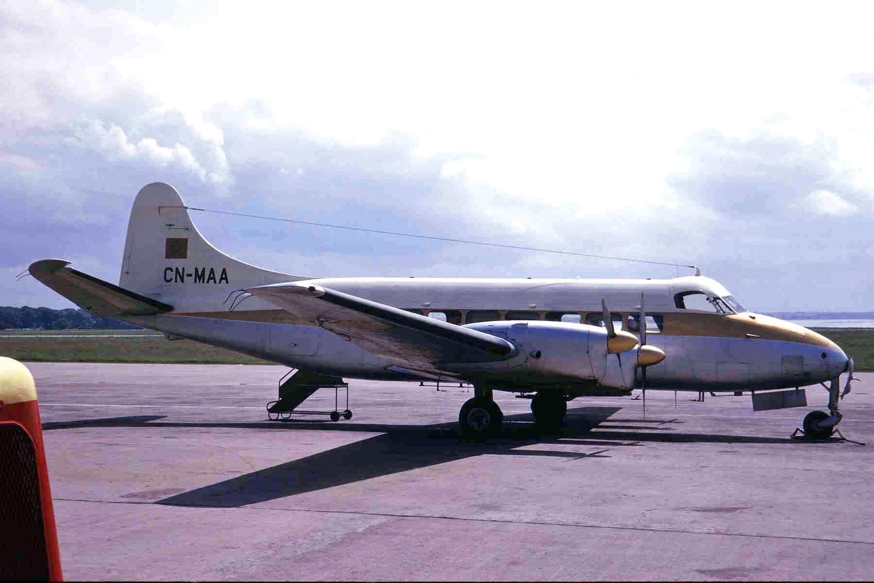 King's Flight, Royal Moroccan Air Force. This had been on maintenance at Hawarden (CEG).